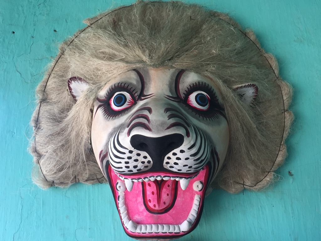 The mask prepared at Charida village in Bagmundi in Purulia district.